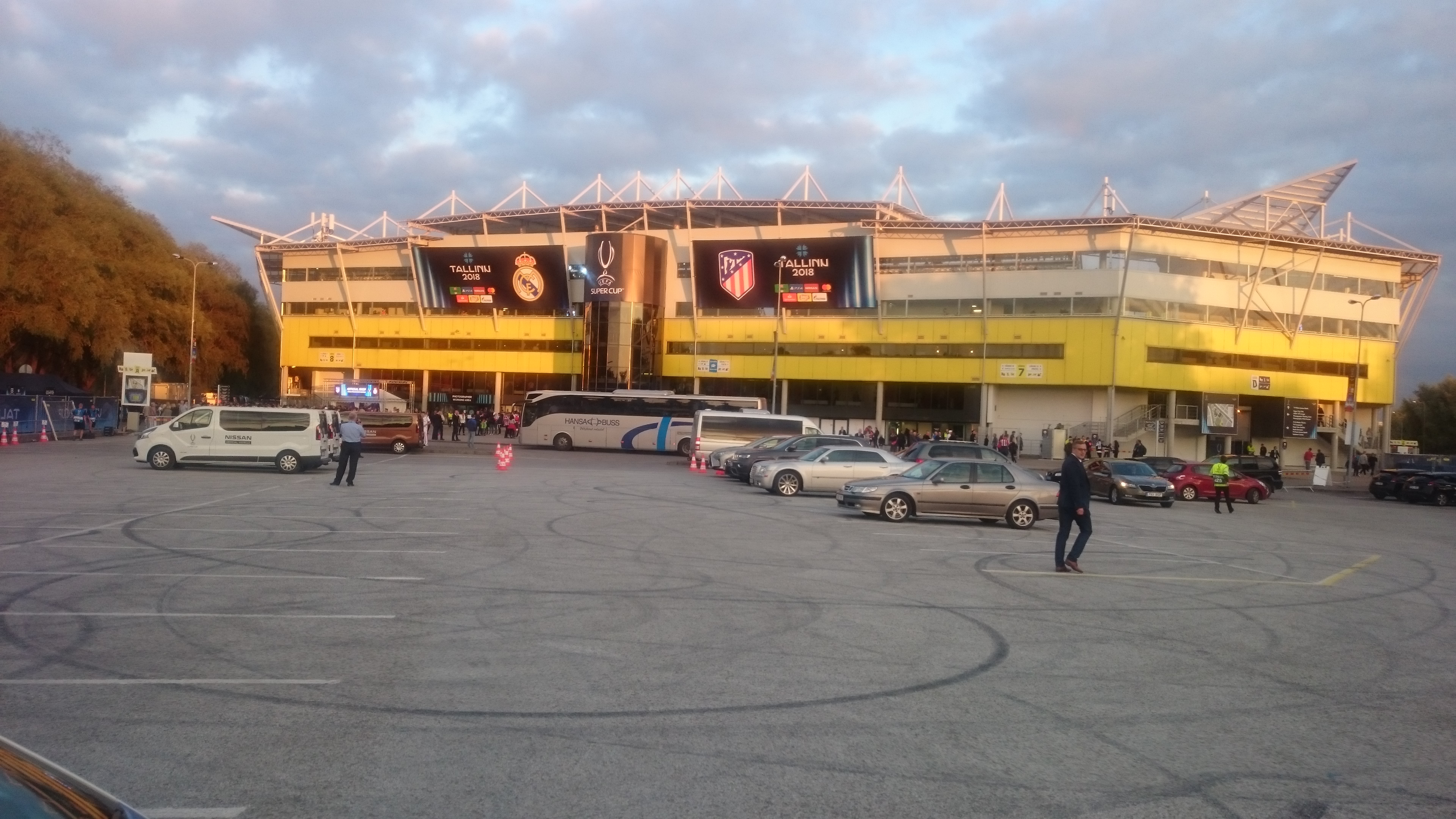 A. Le Coq Arena on 15.08.2018, before uefa super cup.